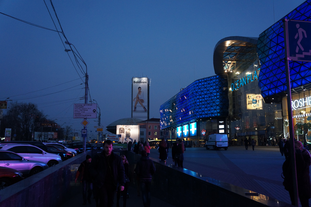 Shopping mall in Lybidska Square, Kyiv